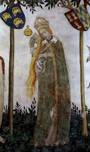 Beatrice of Sicily as Antiope